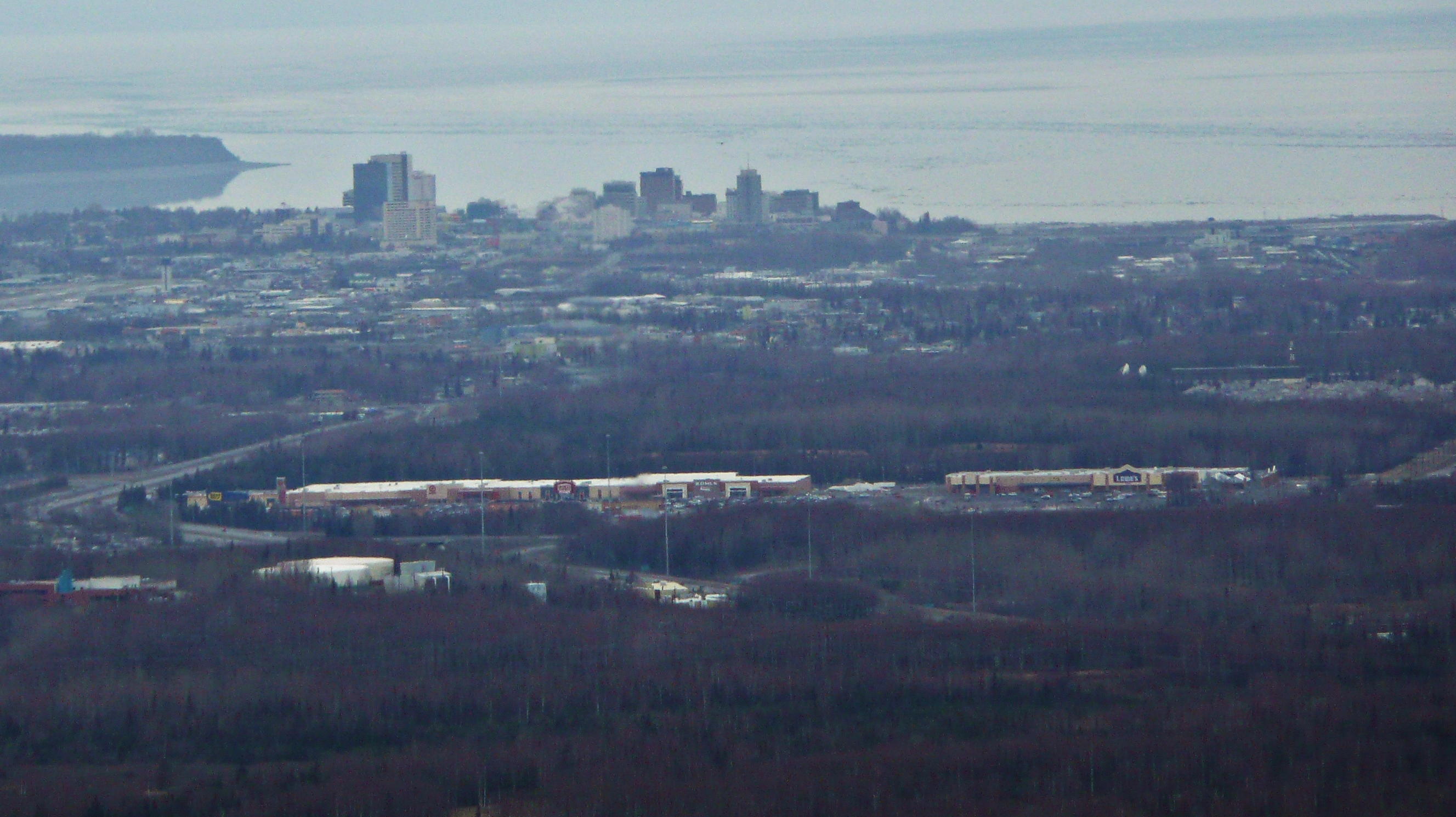 View from Arctic Valley, located in the Chugach Moutains in Anchorage, Alaska. The foreground is dominated by the early stages of Tikhatnu Commons, located in the far northeast corner of the "Anchorage bowl" and today the largest shopping center in Alaska. Most of Anchorage in between Chester Creek and Ship Creek can be seen in the midground, including downtown Anchorage and Merrill Field. Knik Arm is in the background, with Point Woronzof at left background.